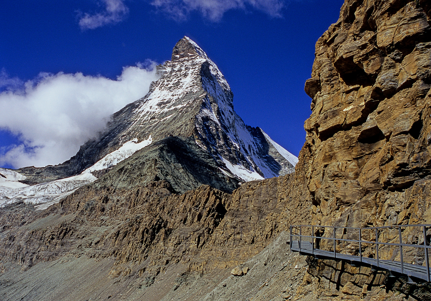 Going to the Hörnlihütte from Schwarzsee at the foot of the Matterhorn